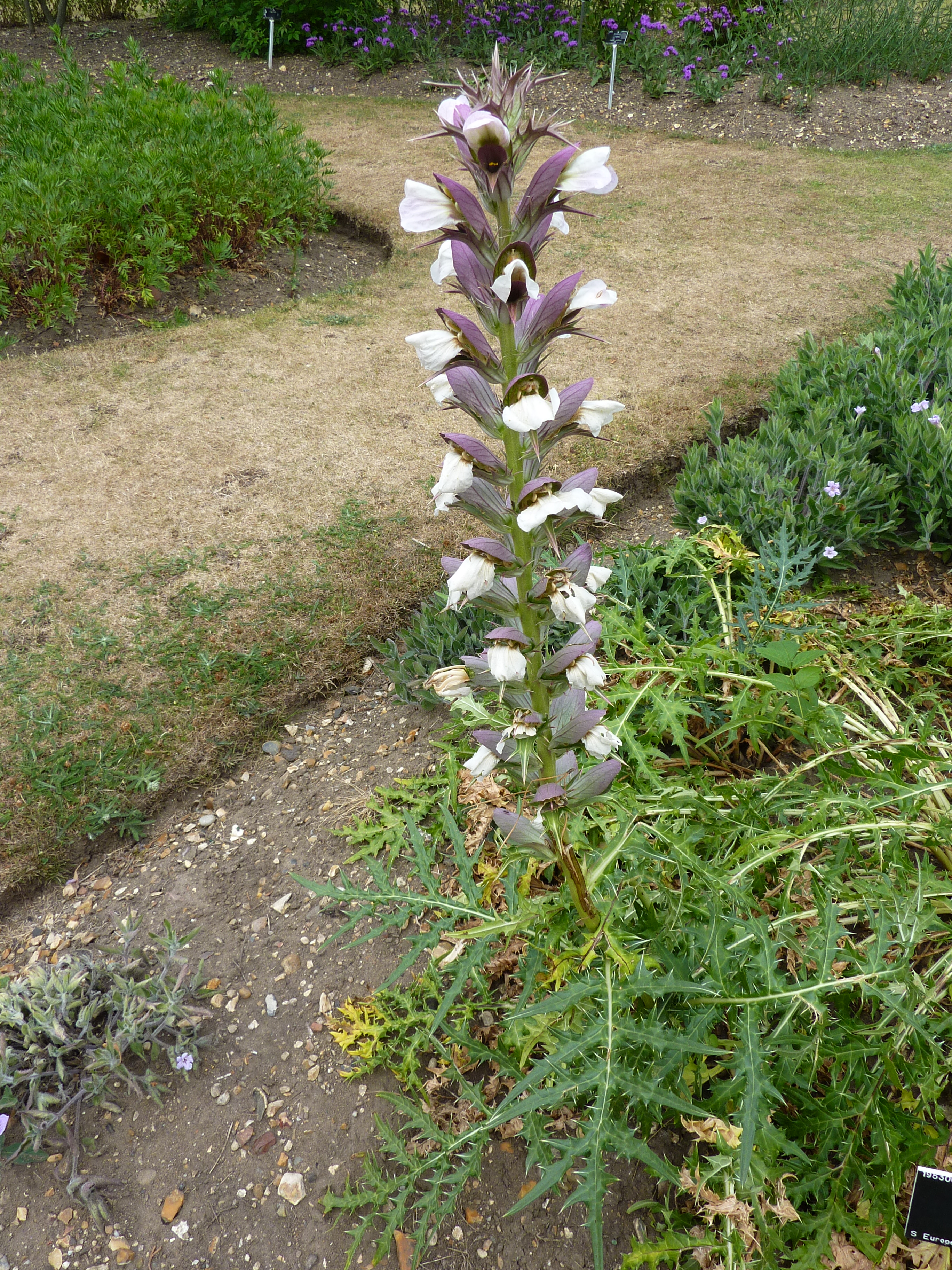 Taken in the Cambridge University Botanic Garden